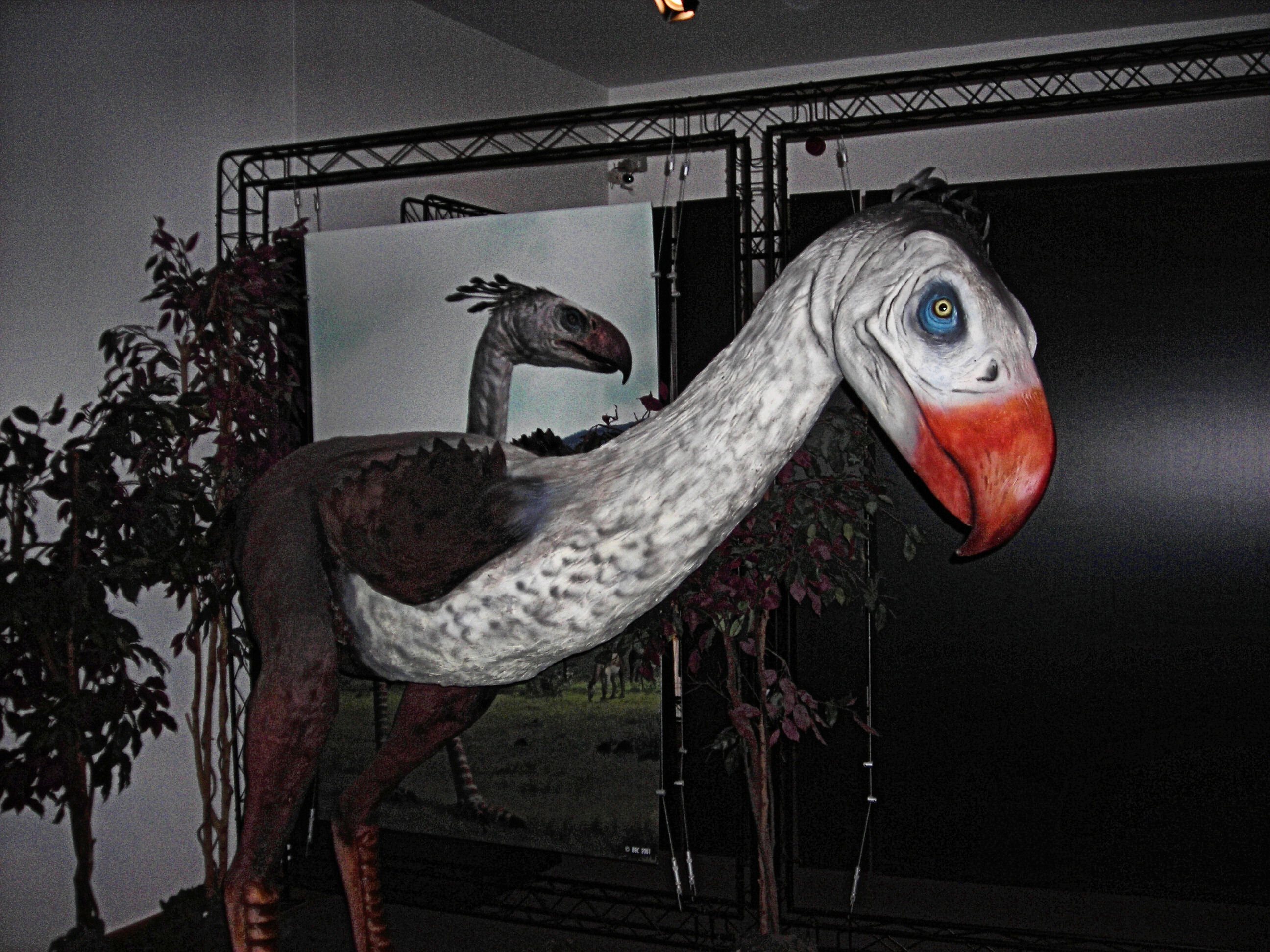 model of Phorusrhacos at the Walking With Beasts exhibition, Horniman Museum, London.